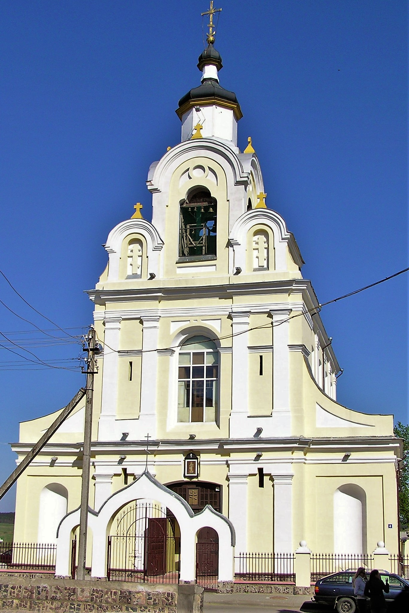 Franciscan Catholic Church in Navahradak